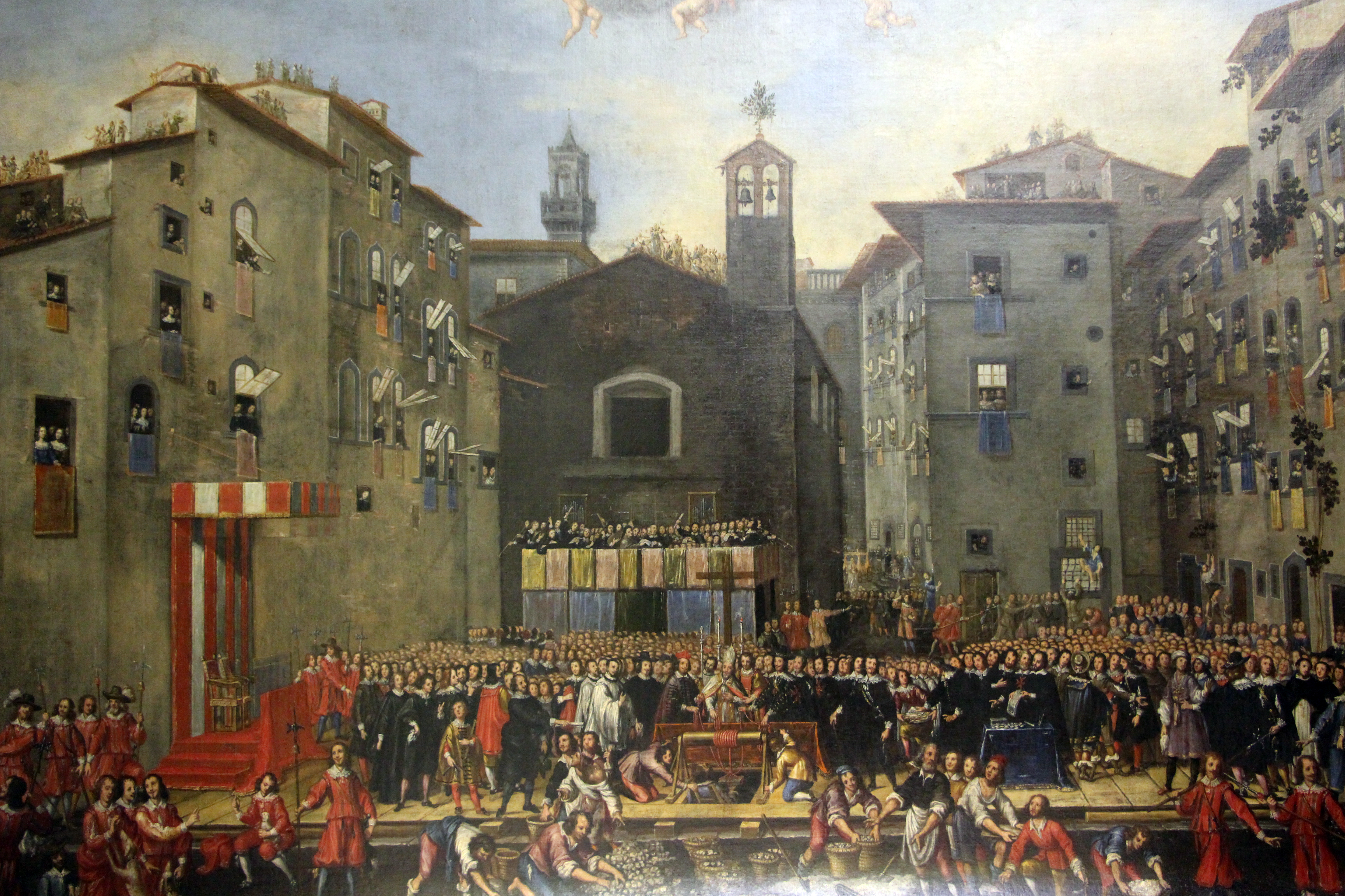 Complesso di San Firenze - Interior